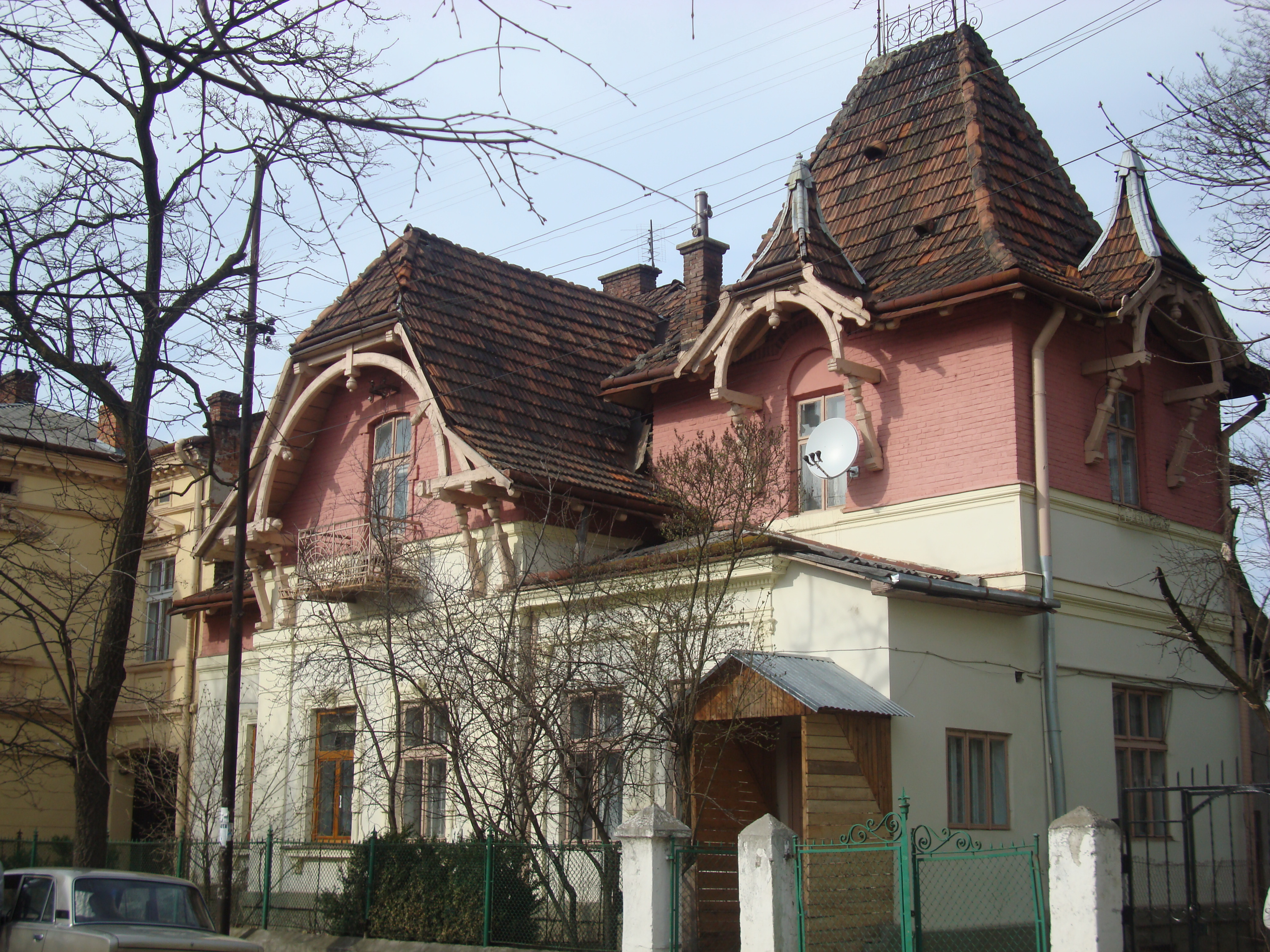 Villa in Stryi near Railway Station